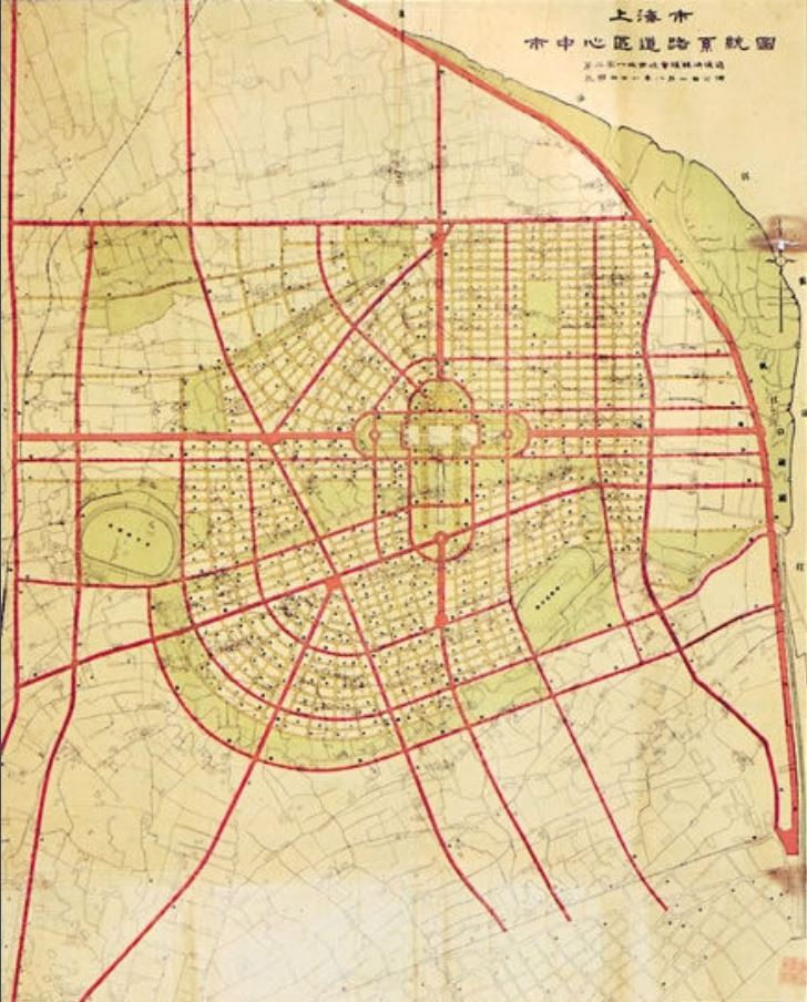 The initial plan for Wujiaochang as a city centre.